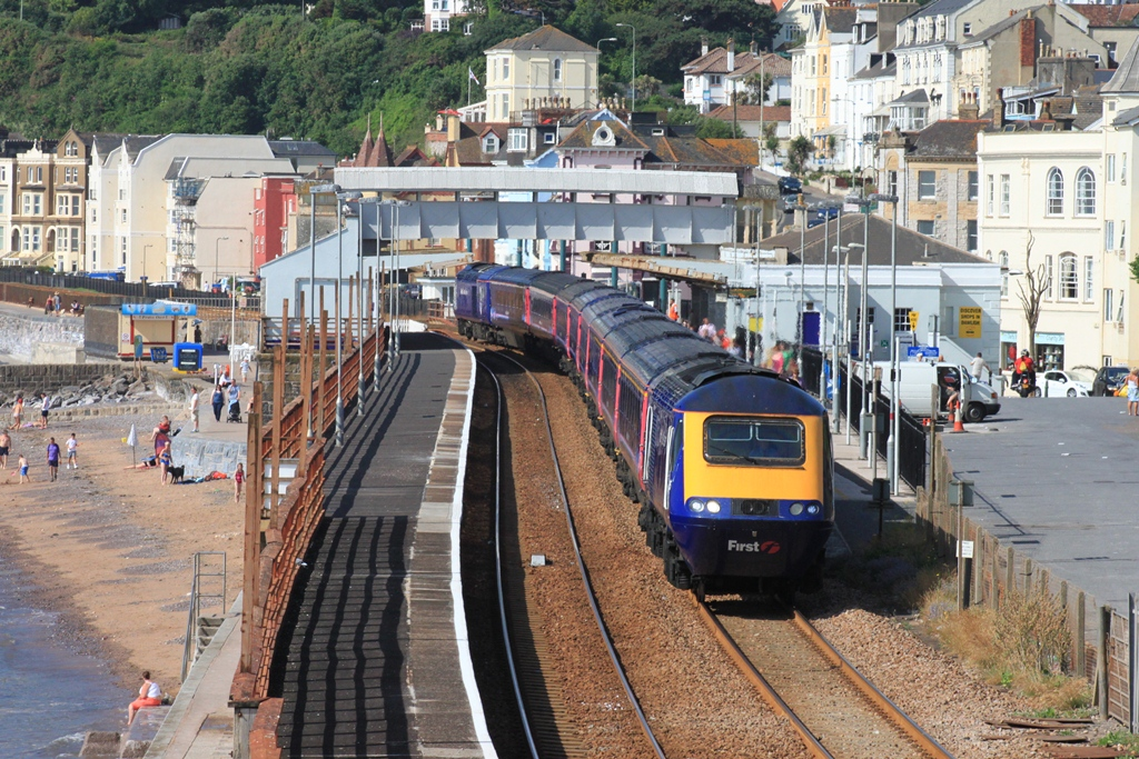 First Great Western's 43195 calls at Dawlish in Devon with a train for London.